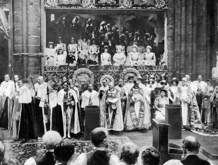 "First photographs of a coronation ever taken. King George V and Queen Mary occupying their chairs of estate on the south side of the altar during that part of the coronation service which precedes the anointing. On the left, the bearers of the four swords. On either side of the King and Queen, the supporting bishops. Reproduced by permission from the late Sir John Benjamin Stone's collection of photographs in the Birmingham Reference Libraries."